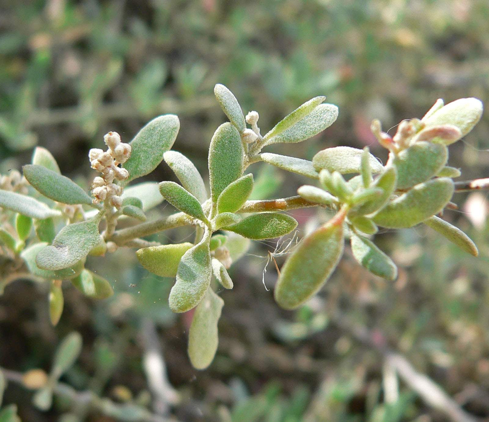 Chenopodium spinescens (Syn. Rhagodia spinescens) at the Springs Preserve garden, Las Vegas, Nevada